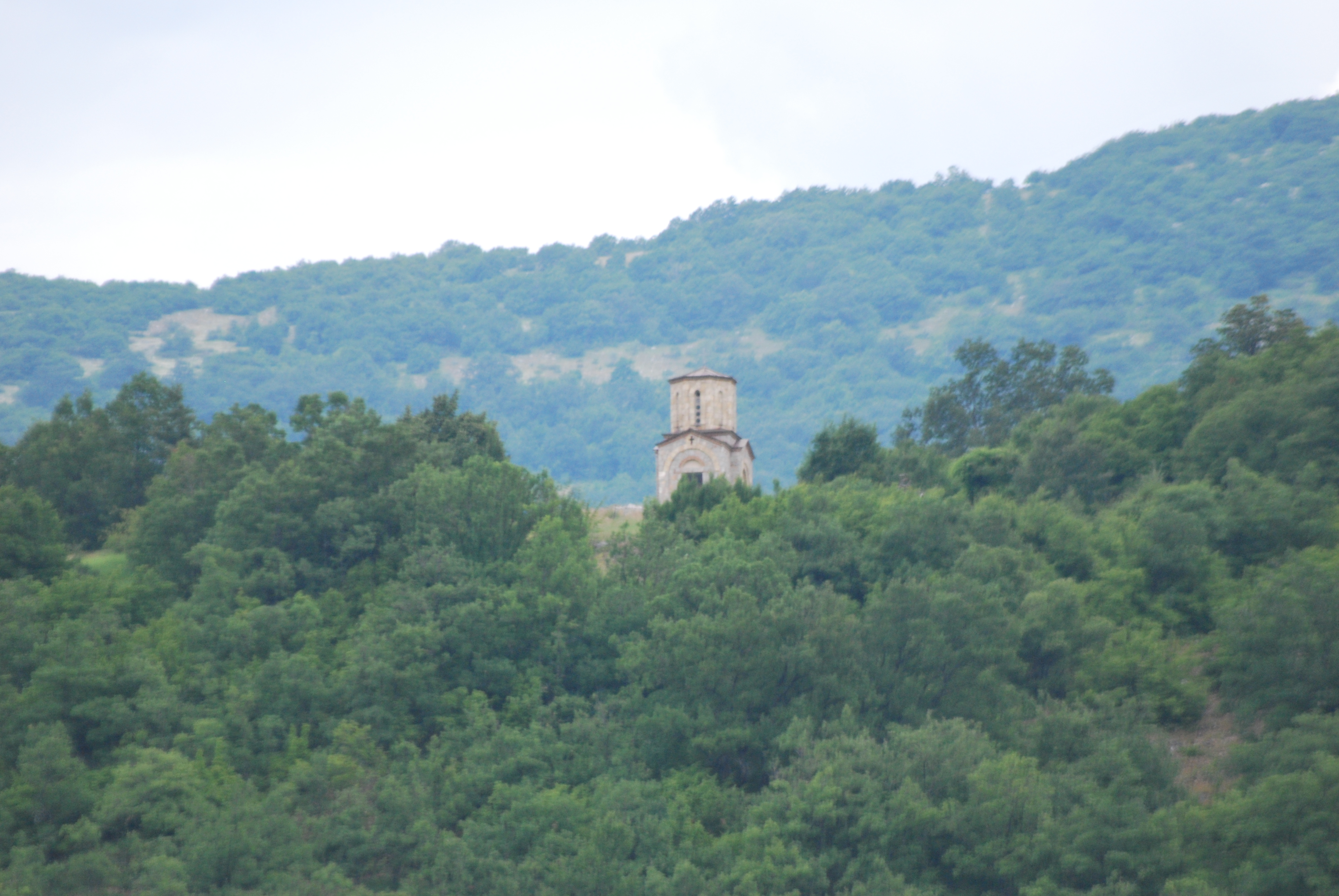 Gabriel the Archangel Church in Modrič, Macedonia